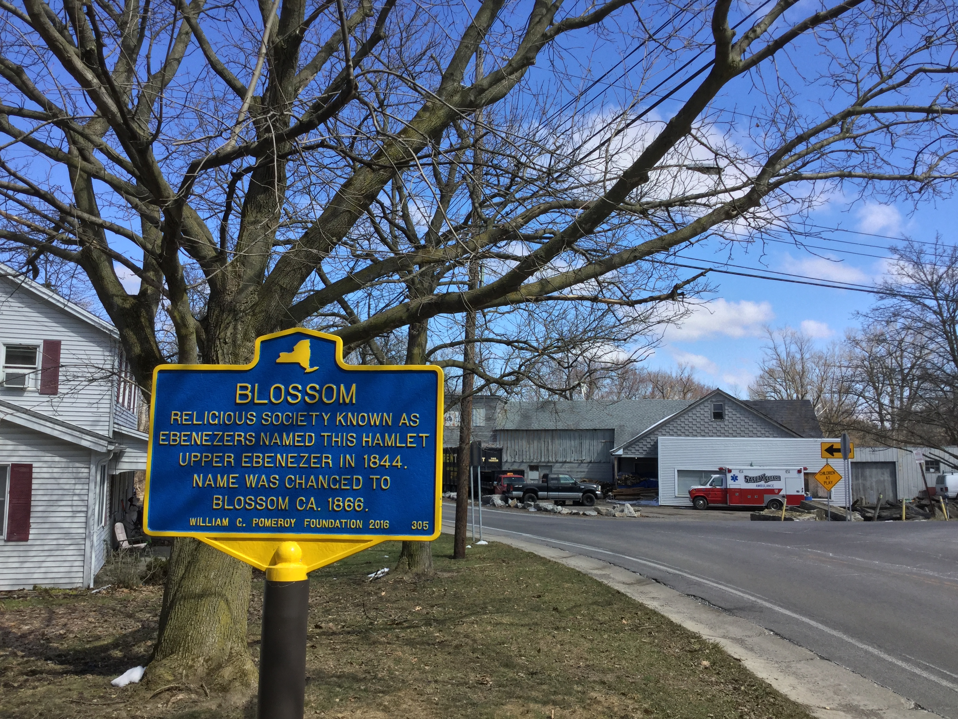 Historical marker on Main Street in Blossom, New York describing the origin of the hamlet.